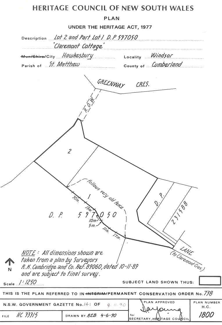 Claremont Cottage: PCO Plan Number 738